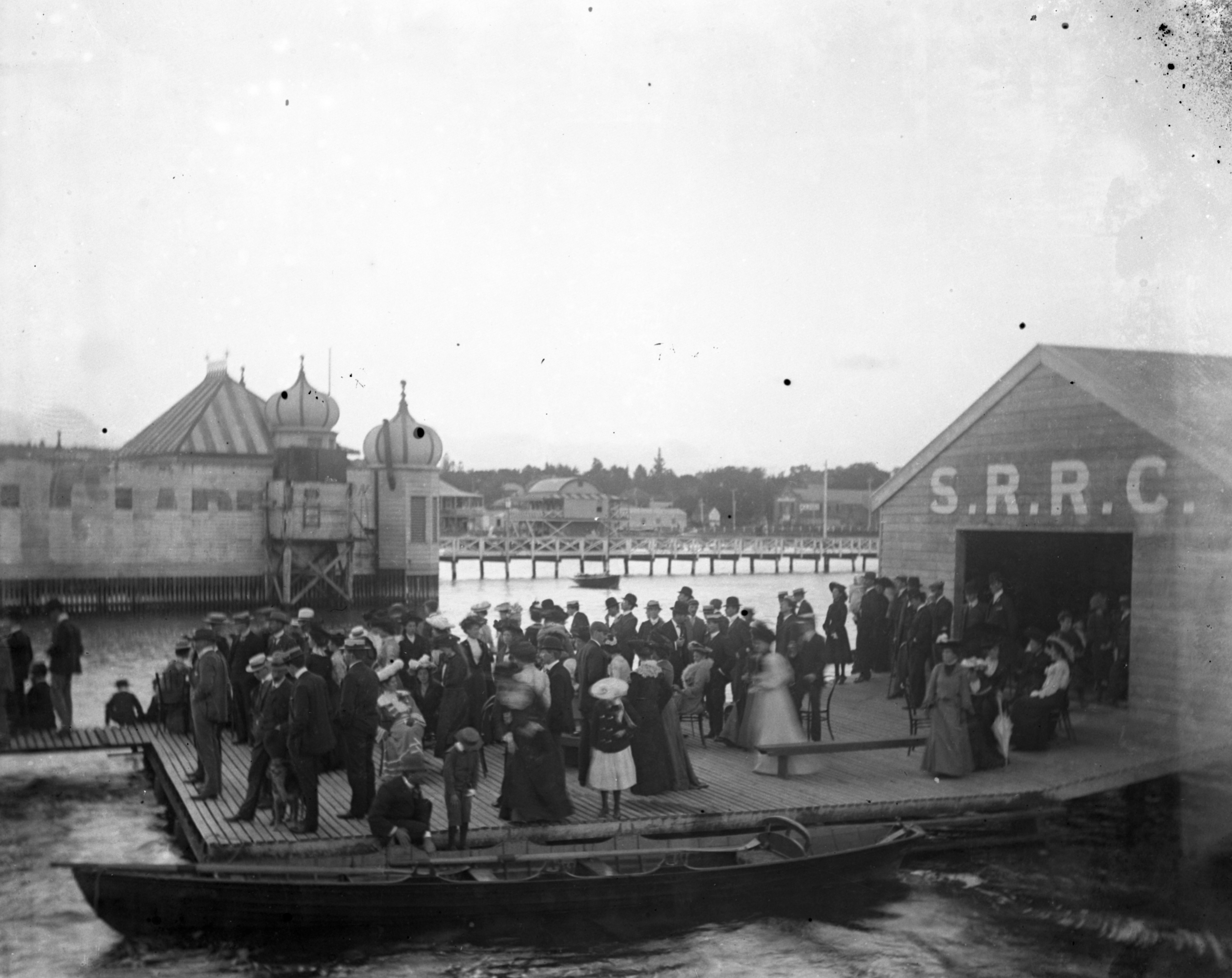 The boat shed and ramp of the Swan River Rowing Club, on a race day.